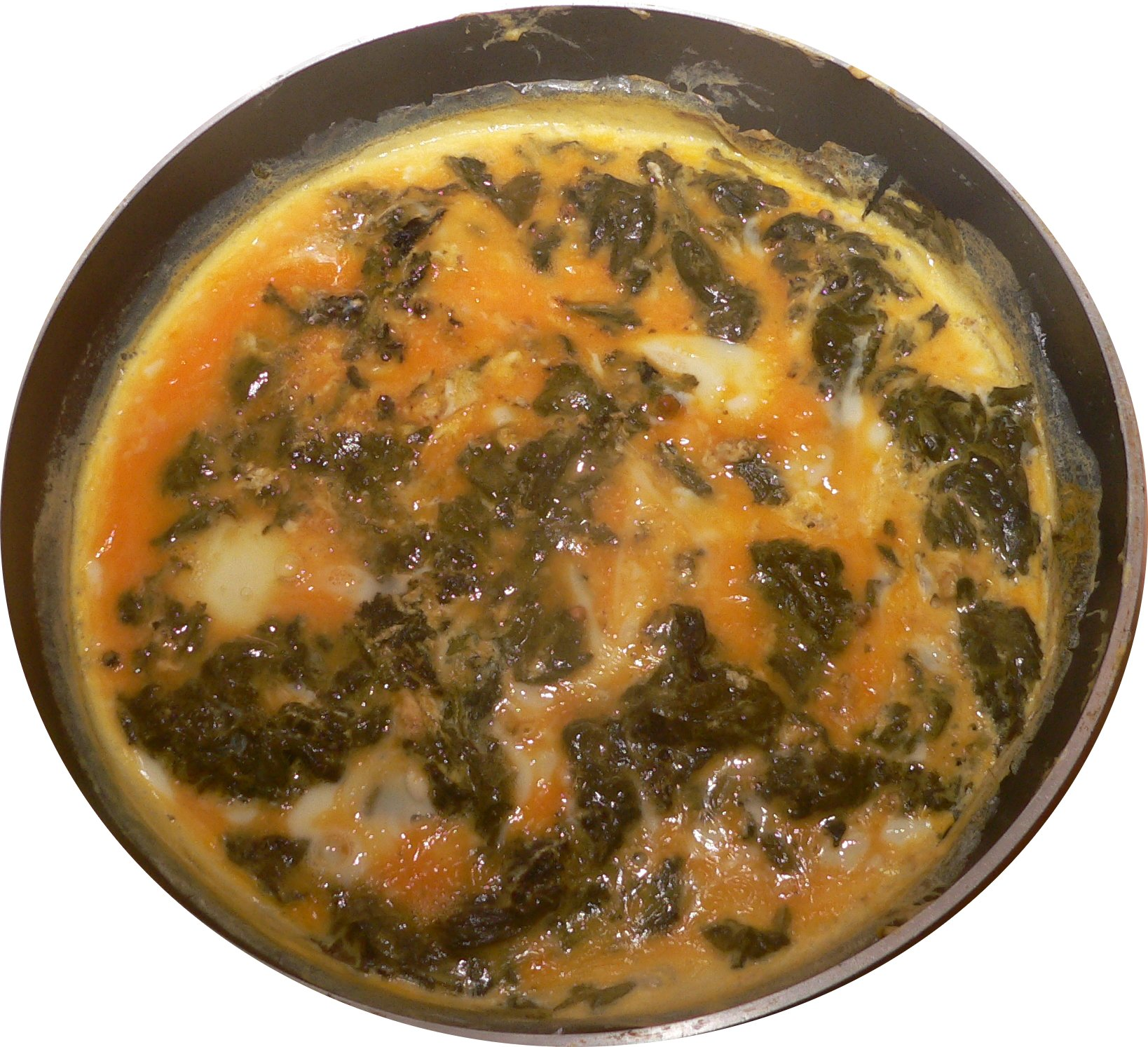 Sorrel omelet